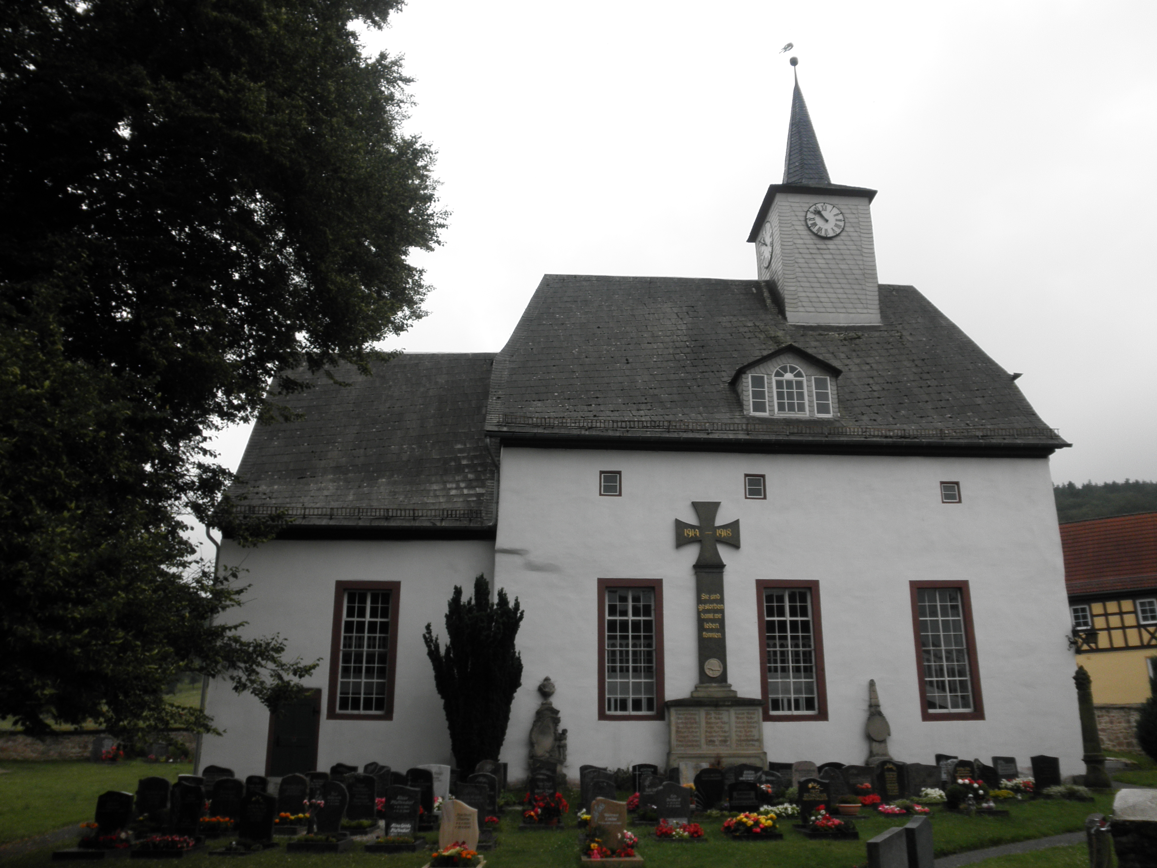 Church in Langenorla in Thuringia